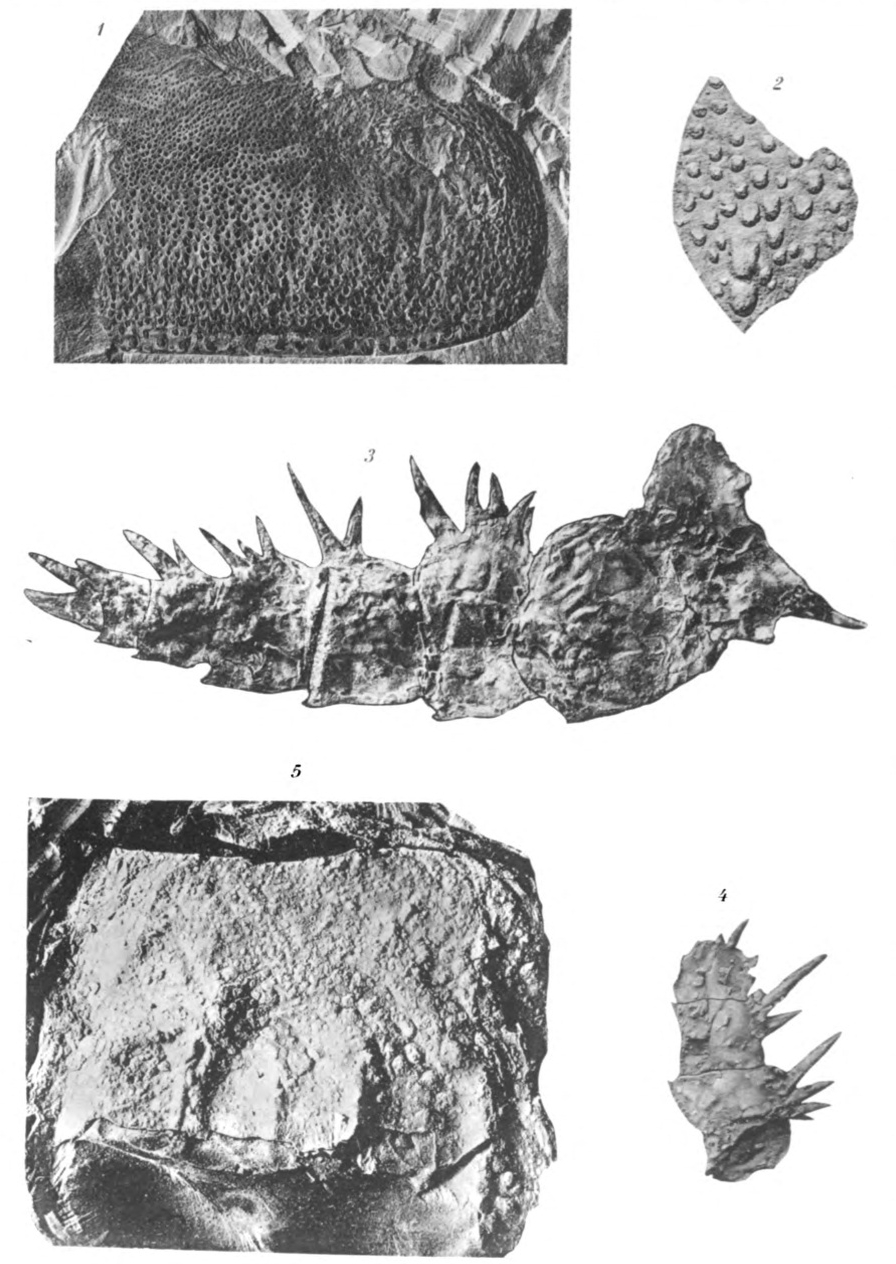 Echinognathus clevelandi Walcott Page 322 See plate 57 1 Fragment of segment. Paratype of the species. Natural size 2 Small fragment of segment (× 3) to show character of scales Horizon and locality. Utica shale. Holland Patent, Oneida co., N. Y. Megalograptus welchi Miller Page 325 3 Walking leg. Cotype. Natural size 4 Fragment of walking leg. Cotype. Natural size 5 Postabdominal segment. Cotype. Natural size Horizon and locality. Richmond group (Liberty beds). Near Clarksville, Warren co., Ohio All figures are from photographs The originals of figures 1 and 2 are in the National Museum, those of figures 3–5 in the museum of Chicago University. Figures 3–5 were furnished by Dr A. F. Foerste The Eurypterida of New York. Volume 2. New York State Museum Memoir 14, plate 58